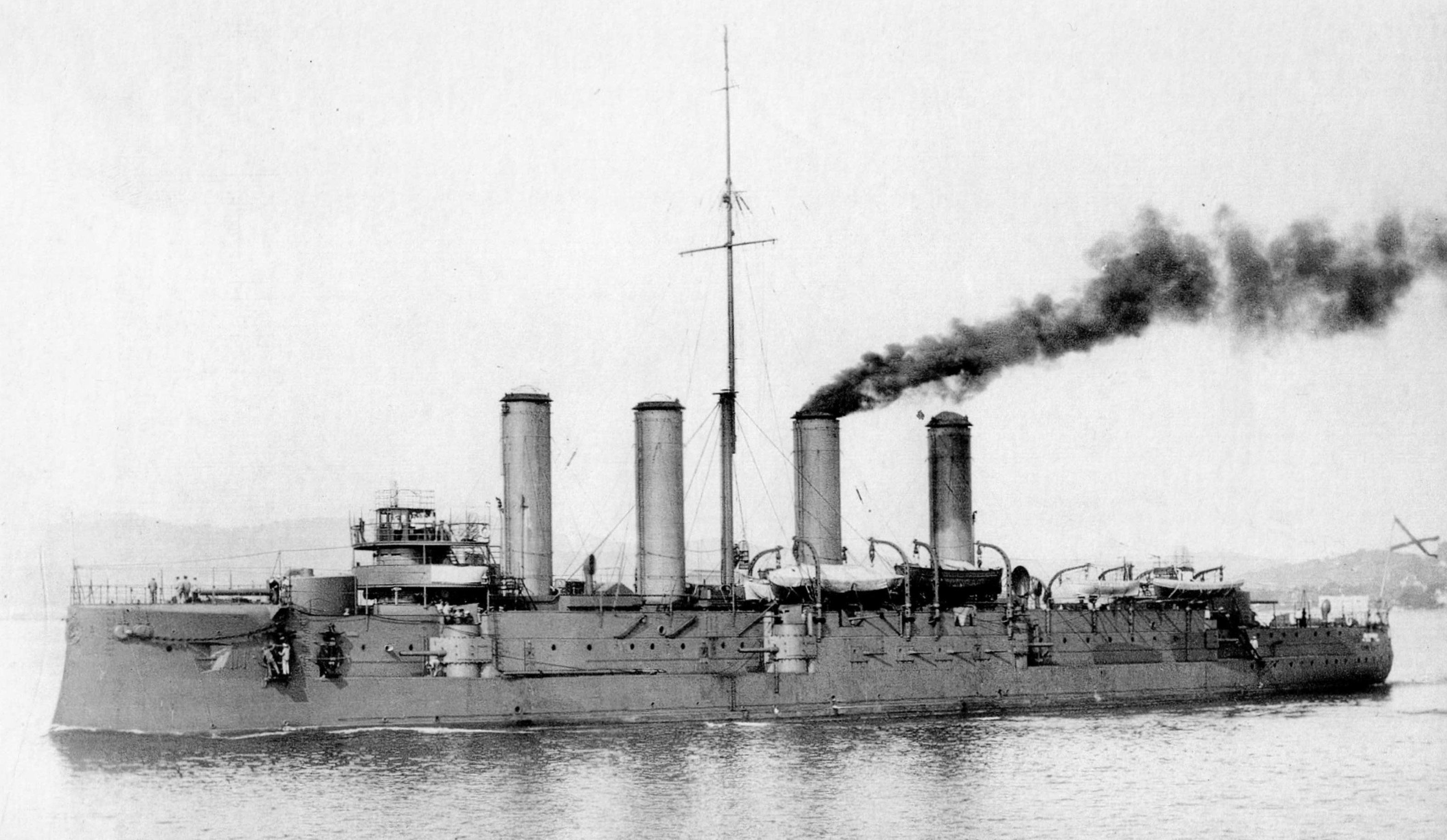 Imperial Russian cruiser Admiral Makarov.